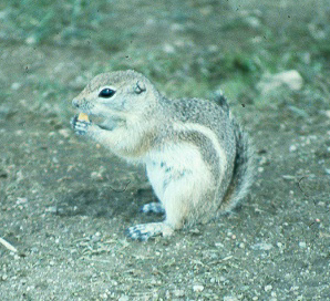 San Joaquin antelope squirrel